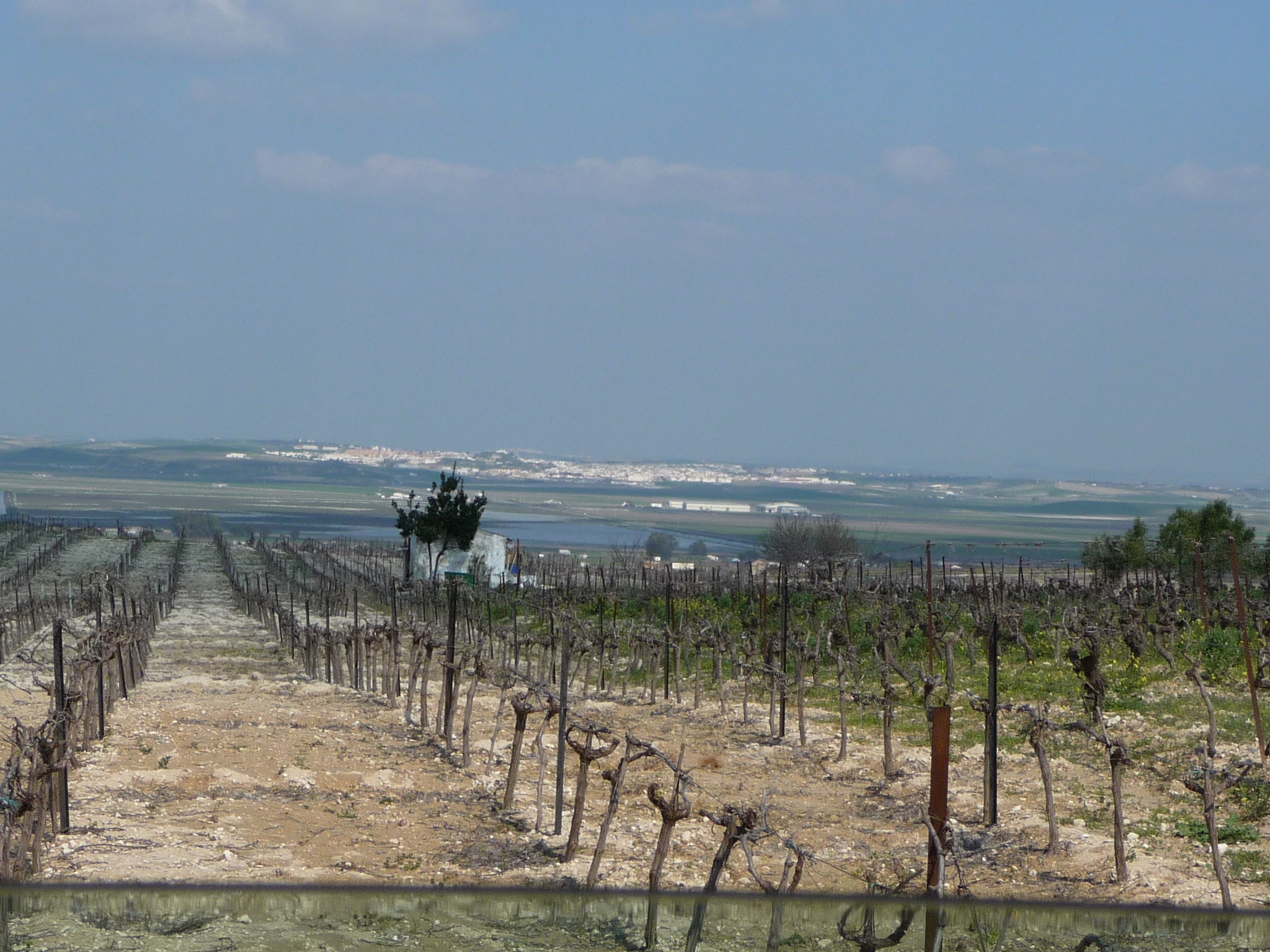 Lebrija from Trebujena (Andalusia, Spain)